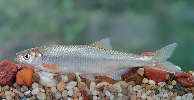 Alburnus mento